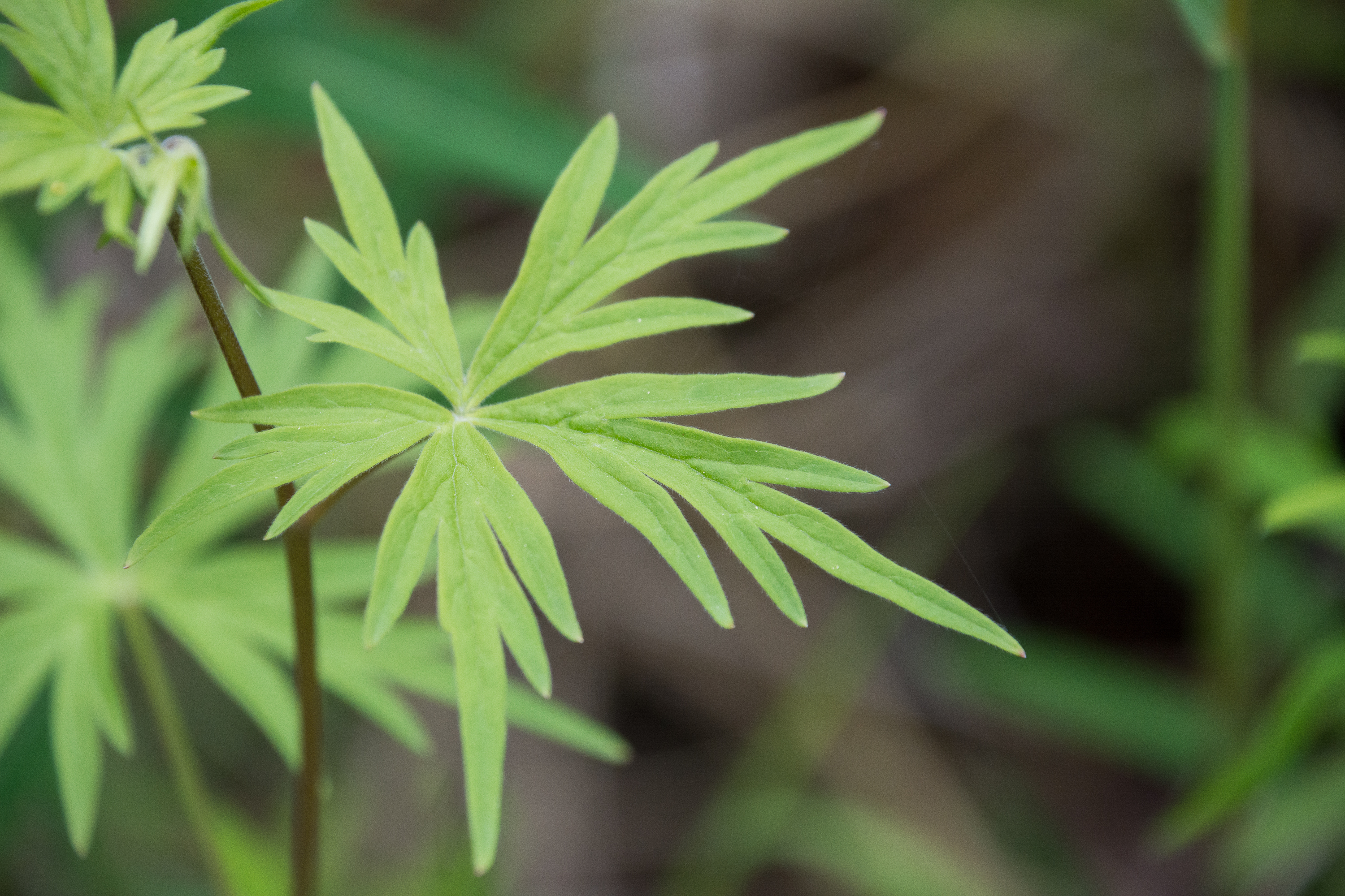 Wild Alaskan Monkshood leaf. The picture was taken in Kenai National Wildlife Refuge in Alaska.